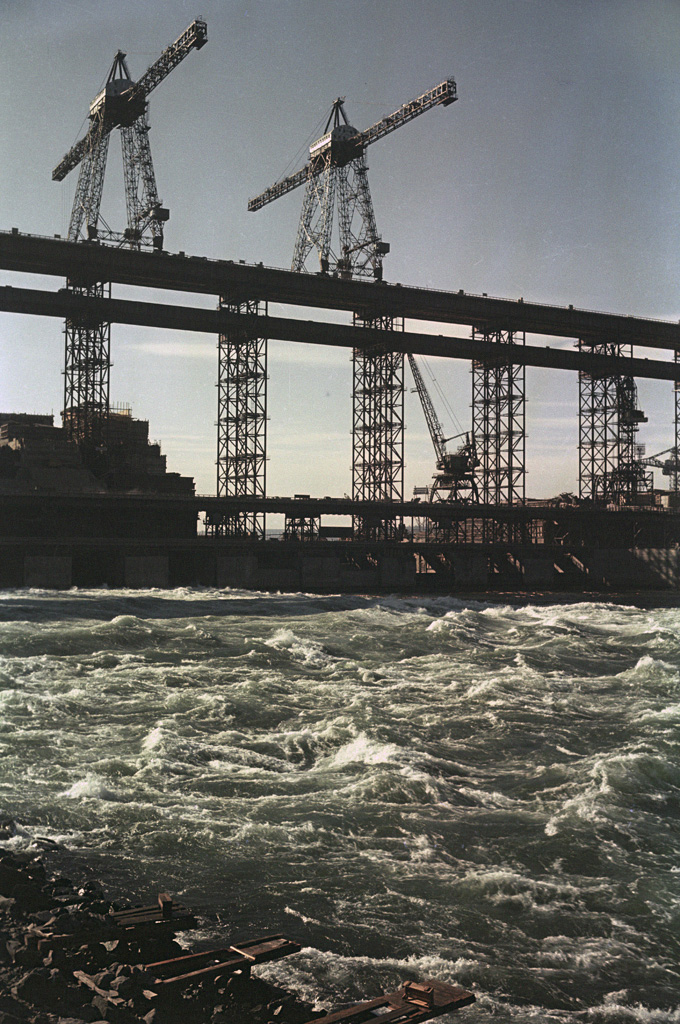 “Bratsk Hydro Power Plant construction”. Bratsk Hydro Power Plant construction. View of the dam.